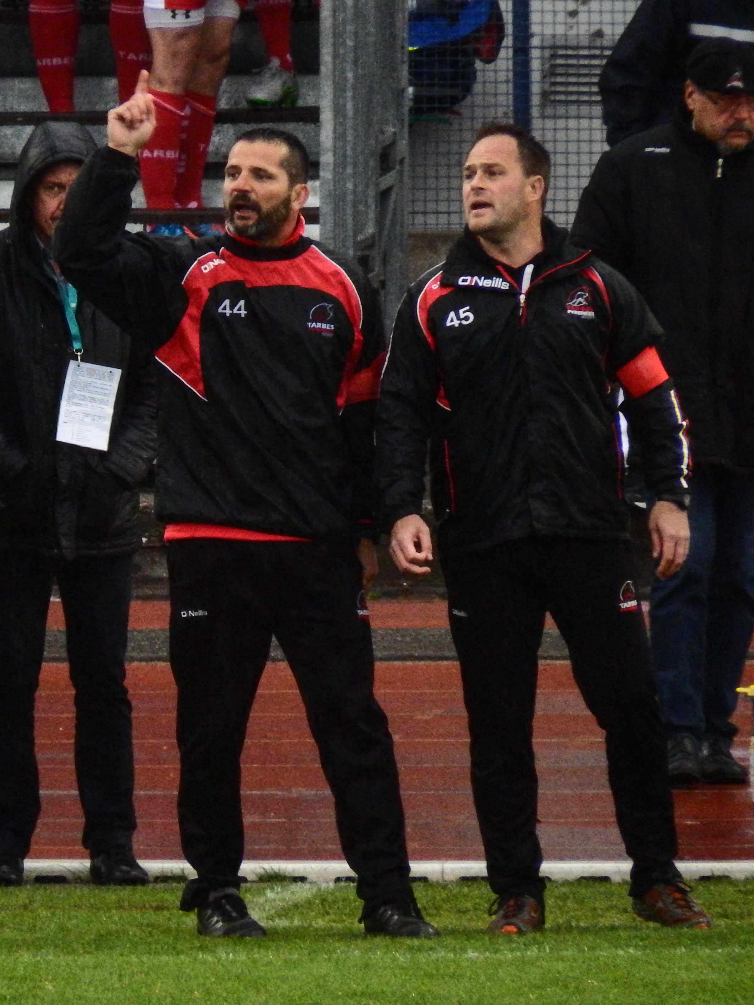 Pro D2 2015-2016 — 13 May 2016, Stade Maurice-Trélut. Match between: Tarbes Pyrénées rugby — US Dax